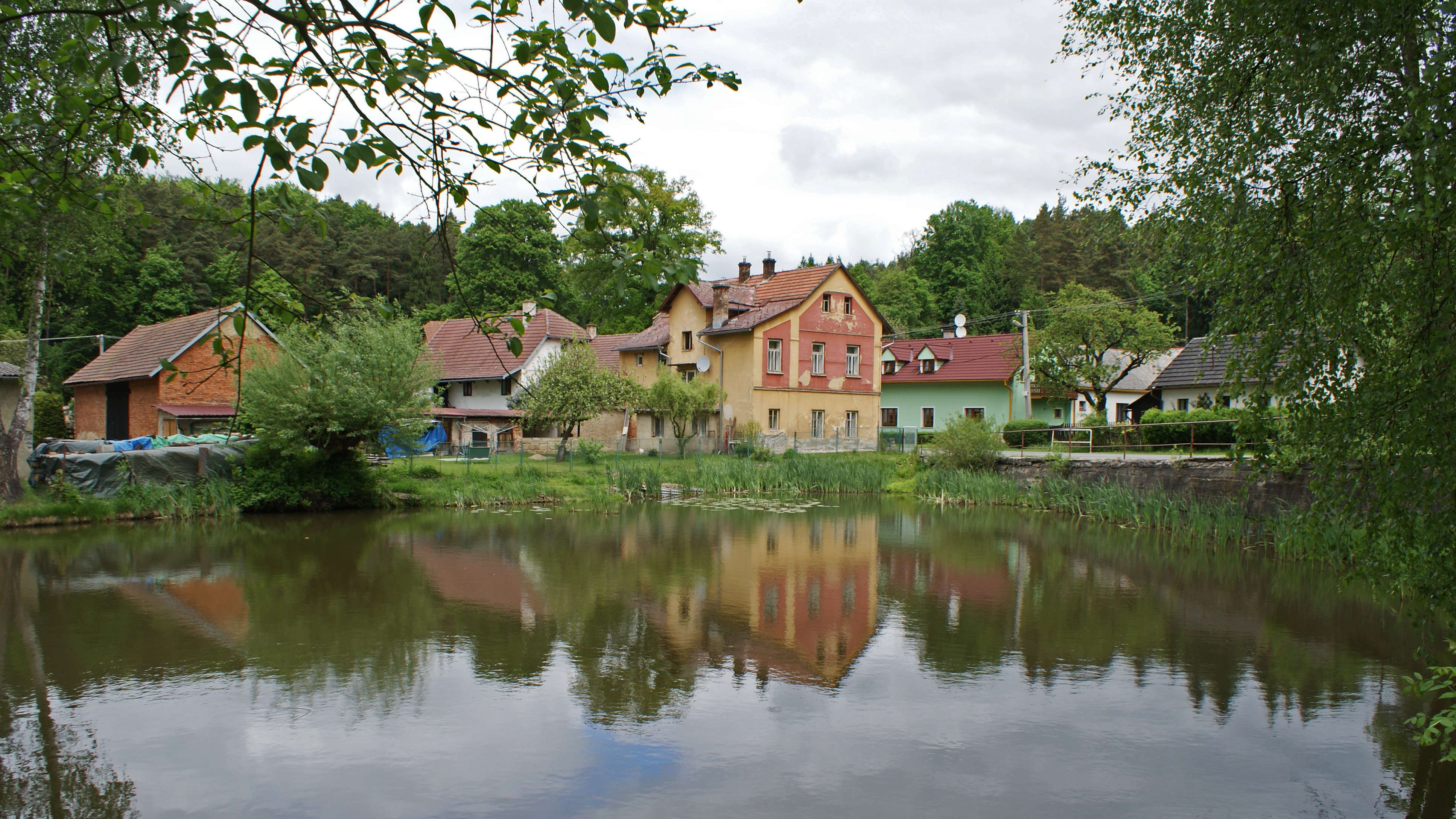 Lobeč, a village in Mělník district, Czech Republic, a pond on the common.